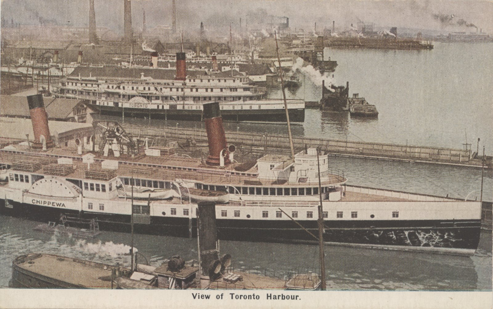 Postcard of the Toronto waterfront showing the Canada Steamship Lines steamboats Chippewa and Toronto. Toronto, Canada.